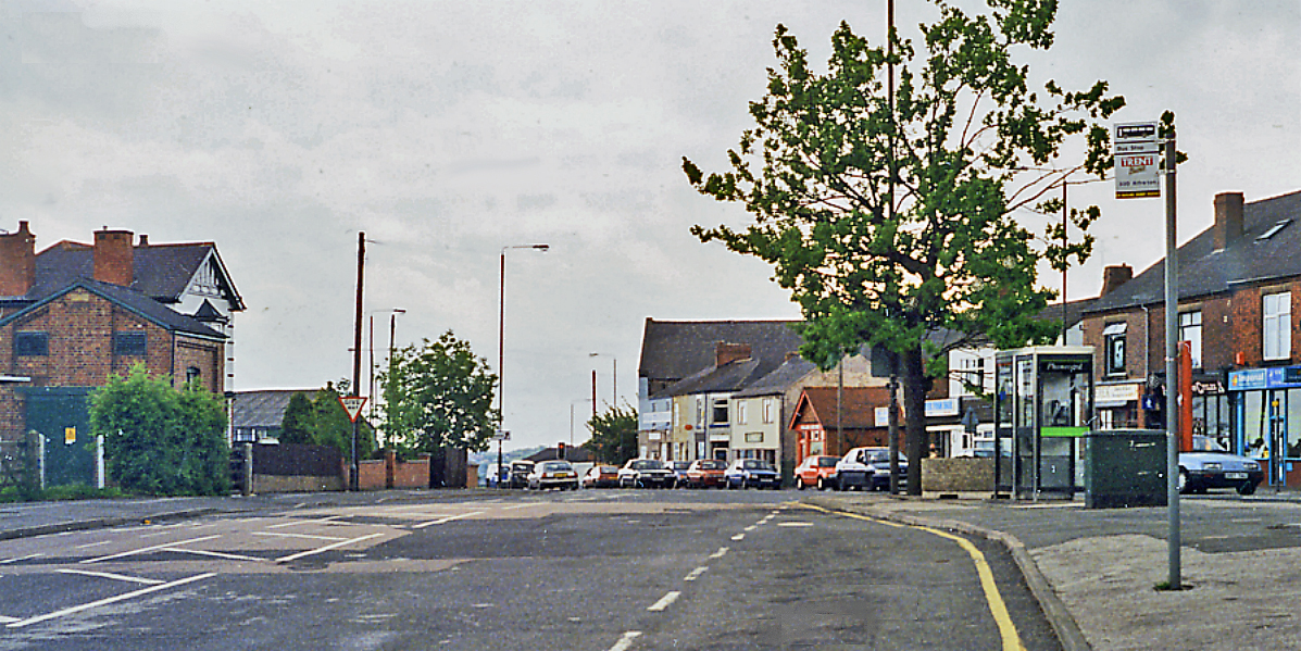 Southward in Codnor Market Place (A6007) near site of Crosshill & Codnor station. Southward on A6007 in Codnor, towards Crosshill. I was not quite right this time. The station, which had been on the abandoned ex-Midland Ripley - Langley Mill branch, had closed back on 4/5/26. It had been about half a mile further south at SK 419489.